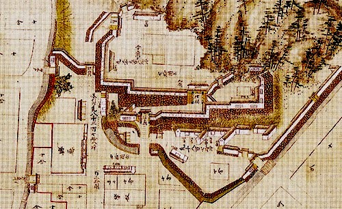 plan of Tatsuno castle, Japan